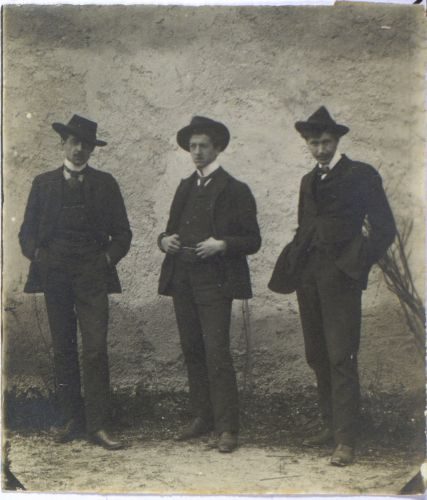 Maksim Gaspari, Fran Tratnik and Hinko Smrekar in 1889.